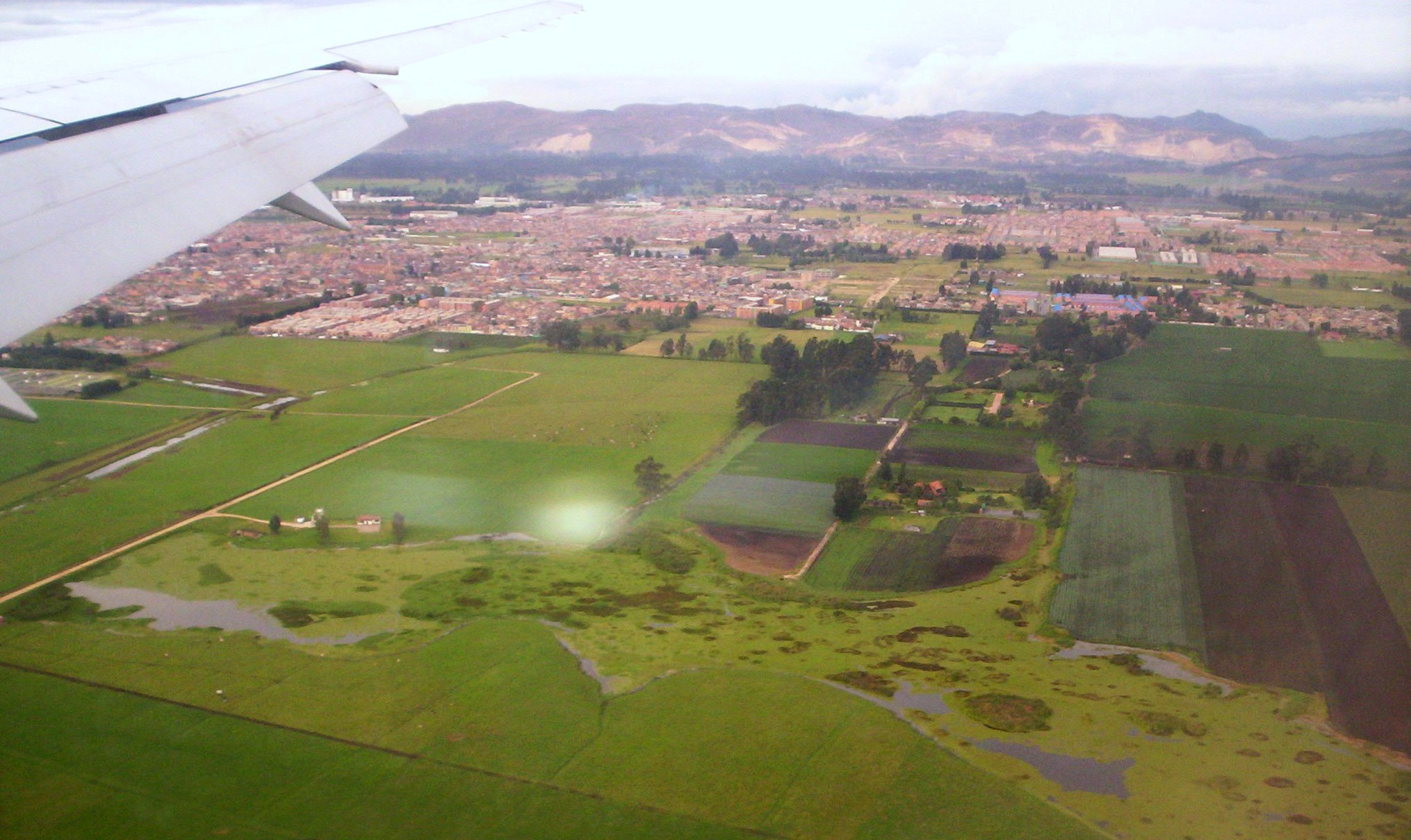 Taken just before landing into El Dorado International Airport of Bogotá. A swamp (humedal) can be appreciated.